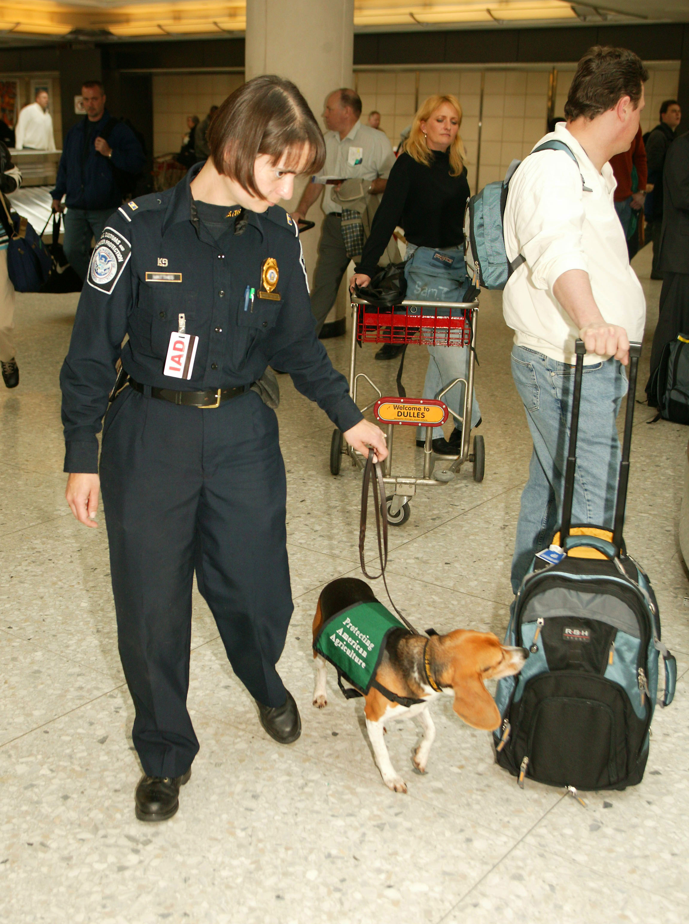 U.S. Customs and Border Protection (CBP) female officer with a Working dog sniffing luggage of airport travelers original caption: A CBP Agriculture Specialist with a member of the “Beagle Brigade” sniffs out possible agricultural contraband.